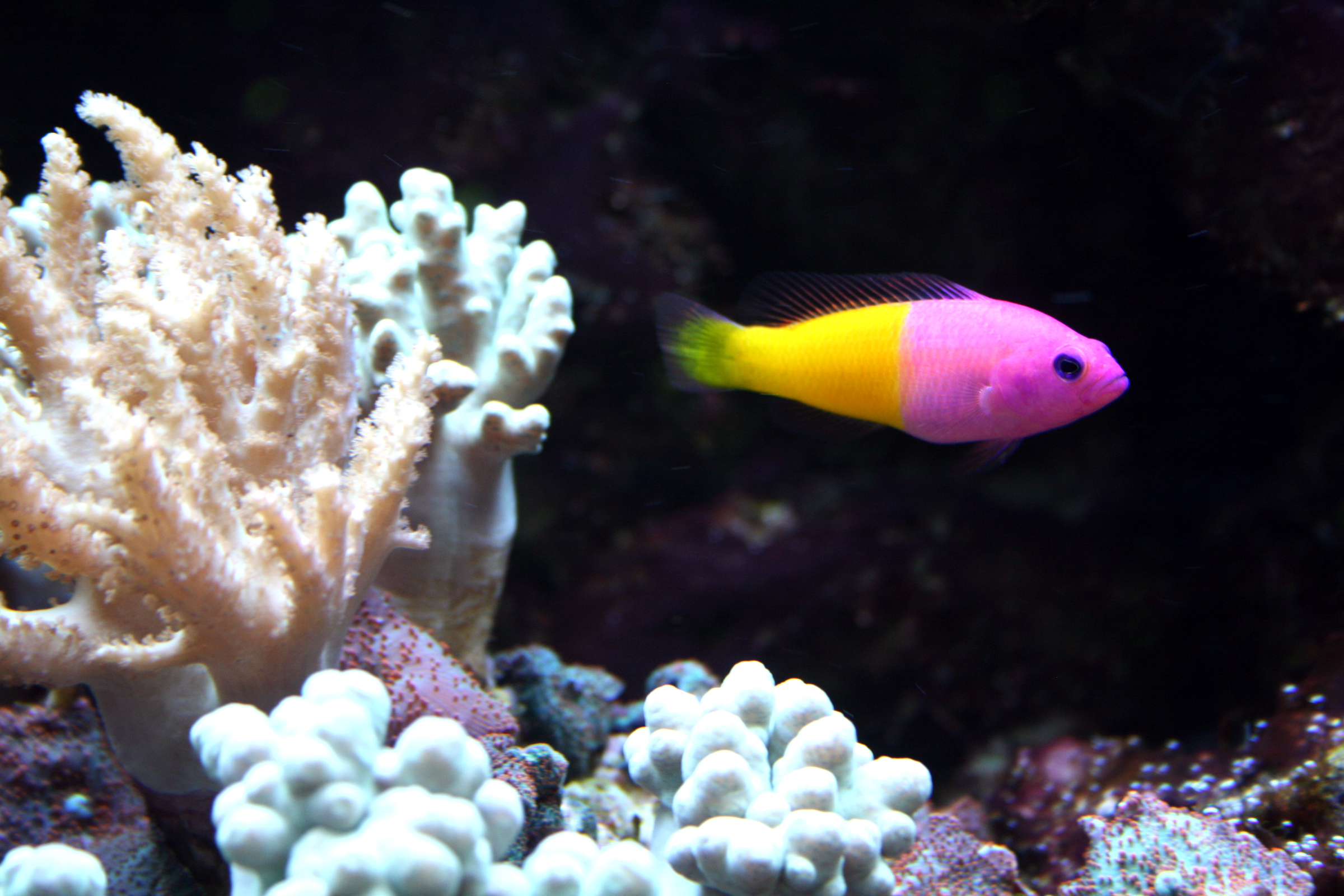 Fish Pictichromis paccagnellae in Prague sea aquarium, Czech Republic